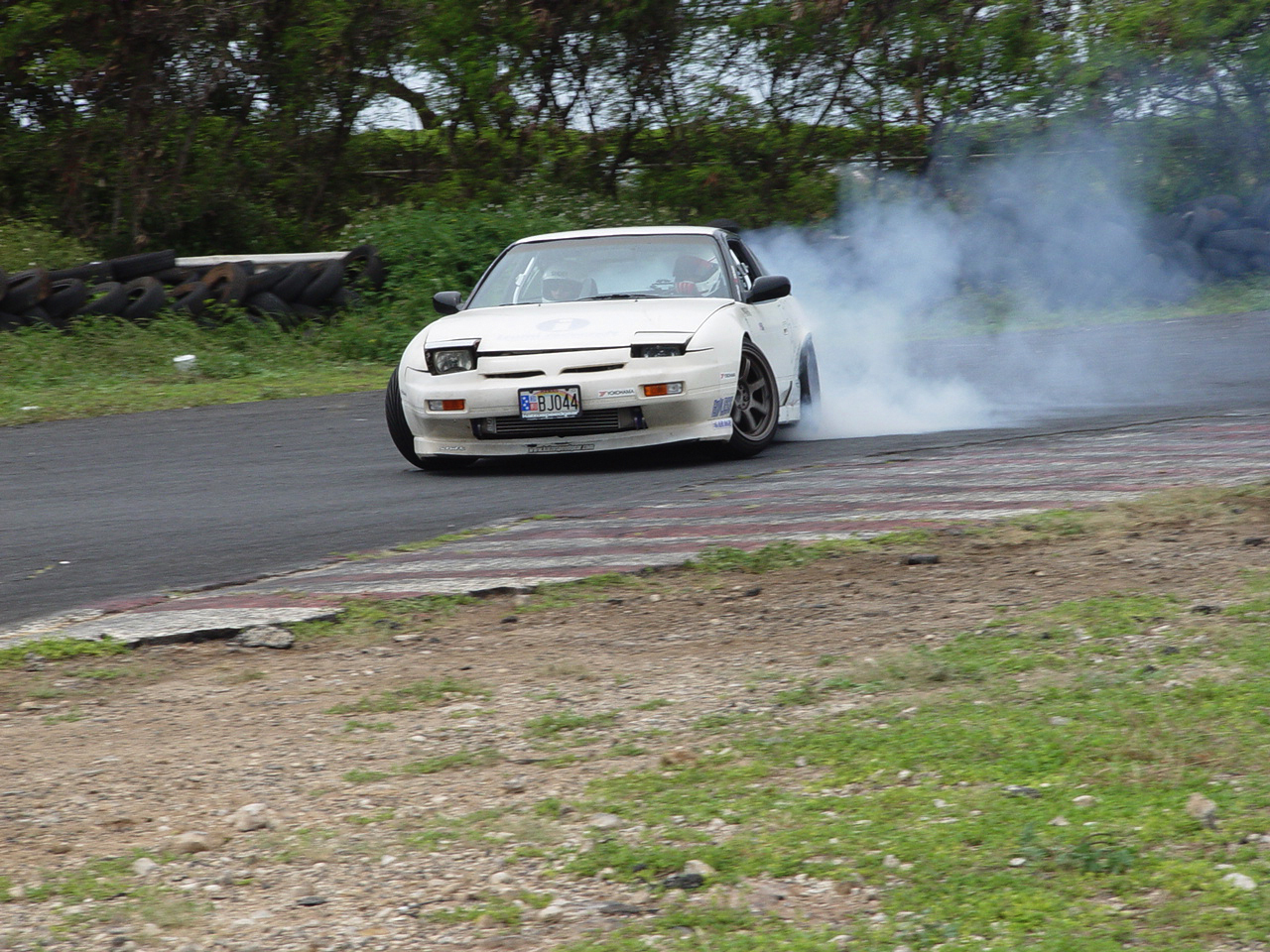 Shige Hirabayashi follows through on the off-camber turn during a drifting session at Hawaii Raceway Park. The Drift Session looks at a drifters speed, racing line, amount of smoke created, and how close drivers get to the guardrails.